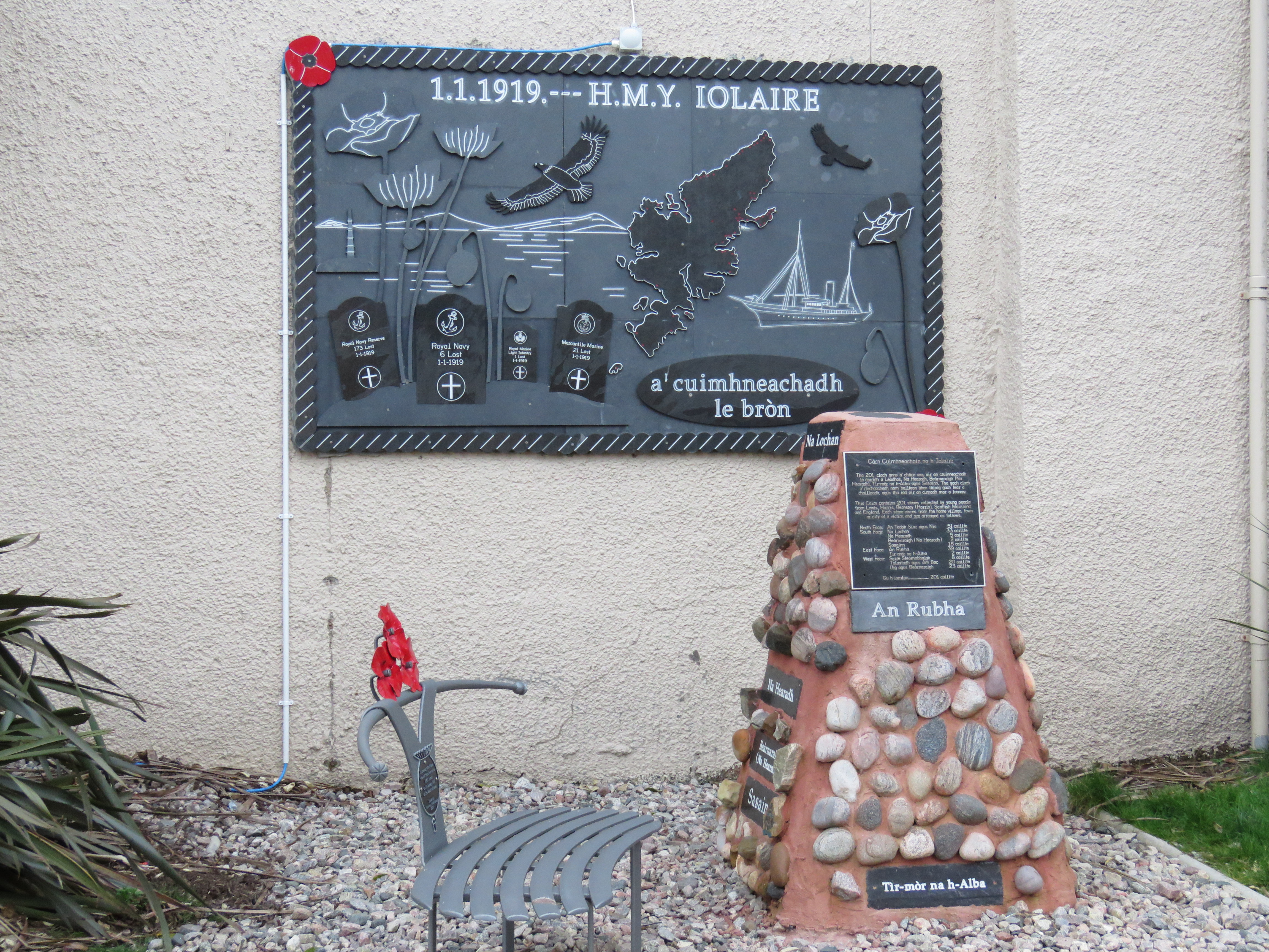 Memorial garden in Stornoway, Isle of Lewis, to the loss of the Iolaire, a ship bringing soldiers home from the war in 1919